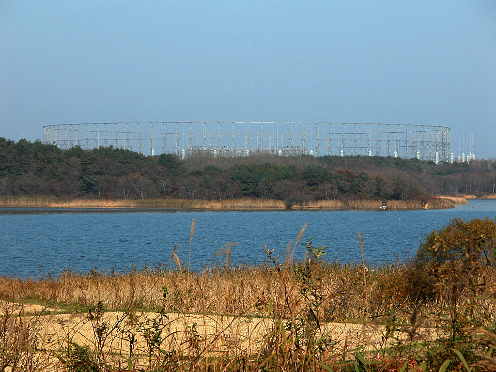 AN/FLR-9 circular antenna array, a.k.a. "Elephant Cage", at Anenuma Communication Site, USAF Misawa Air Base, Japan